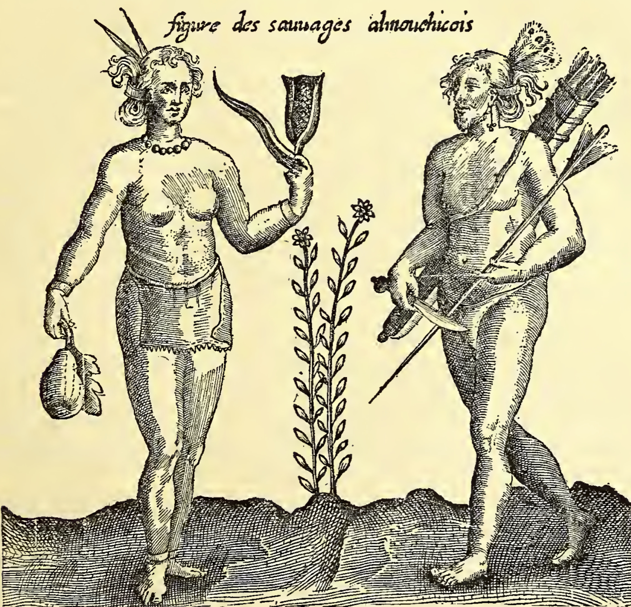 Champlain's drawing of Southern New England Algonquin Natives.